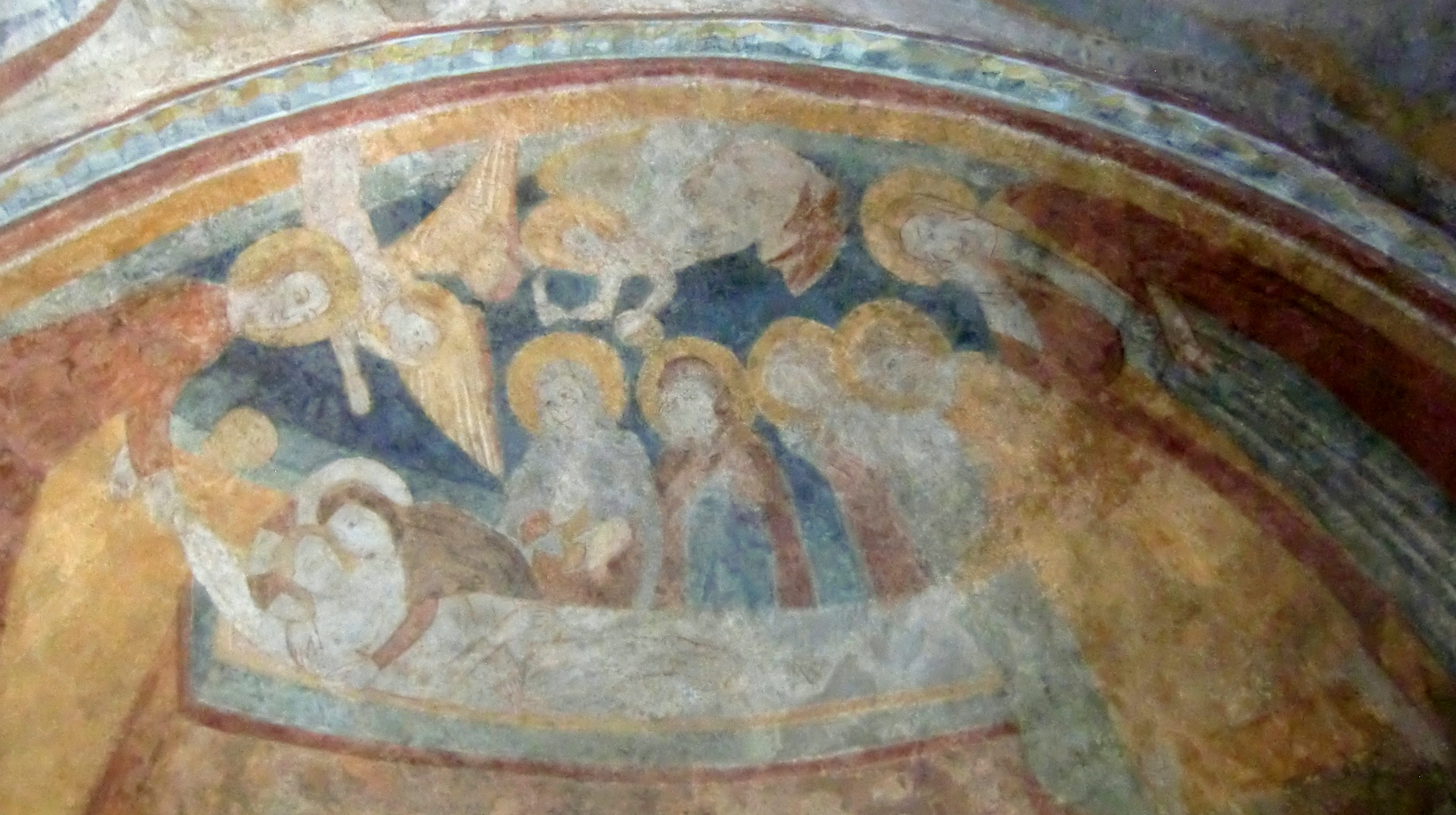 Lamentation of Christ, fresco, XIV century?, Chiesa di San Martino di Liramo, Cirié, Italy